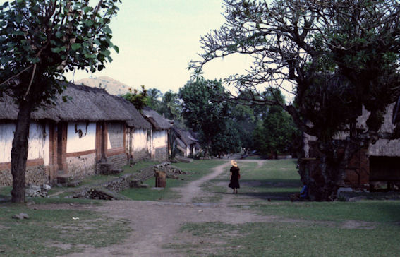 The main concourse of Tenganan looking south in 1981.